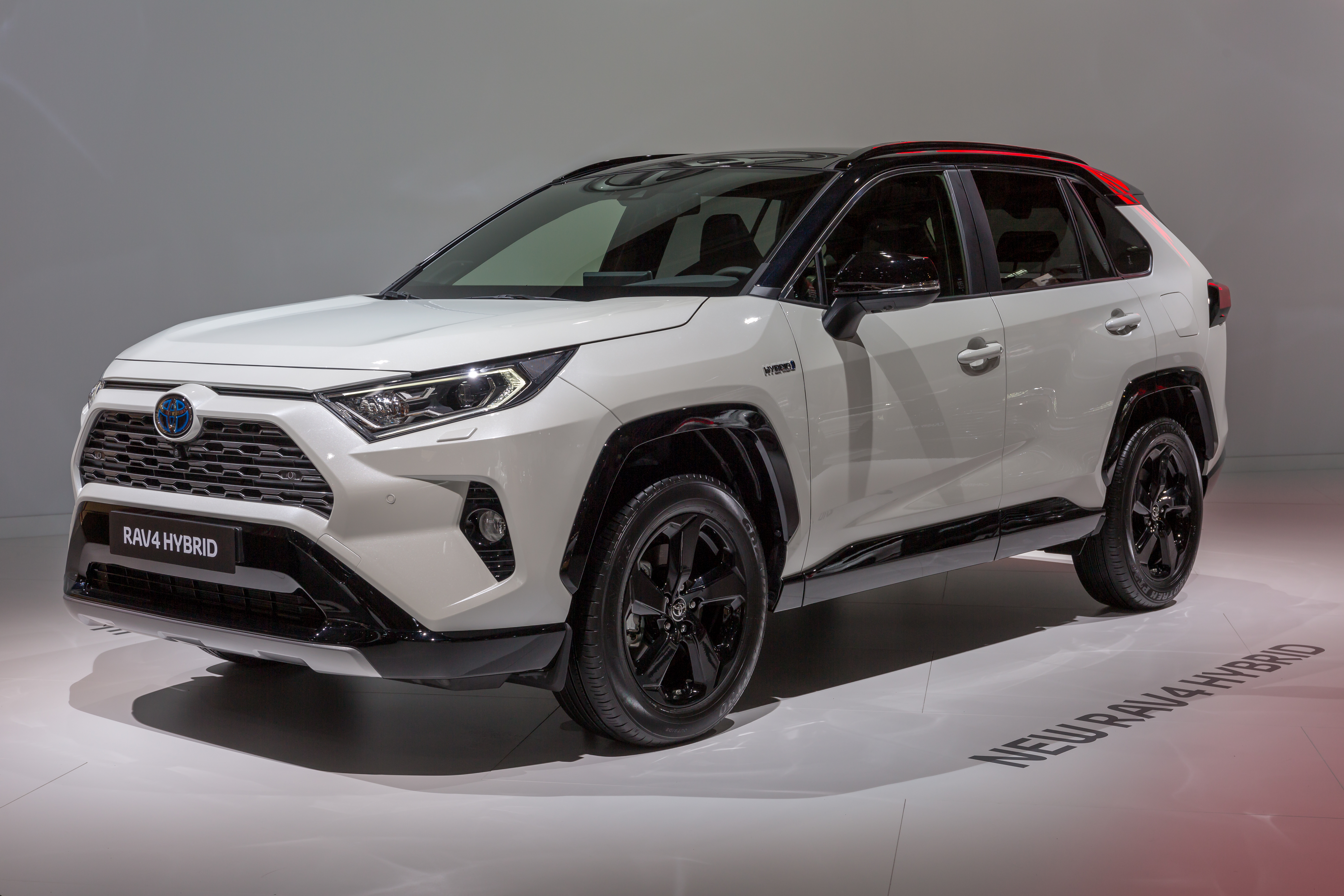 Toyota RAV4 Hybrid, Mondiale Paris Motor Show 2018